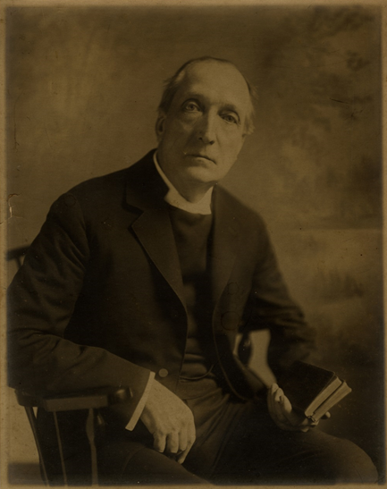 Picture of Rev. Floyd W. Tomkins, rector of the Holy Trinity Church, Rittenhouse Square. Philadelphia, from 1899 to 1932